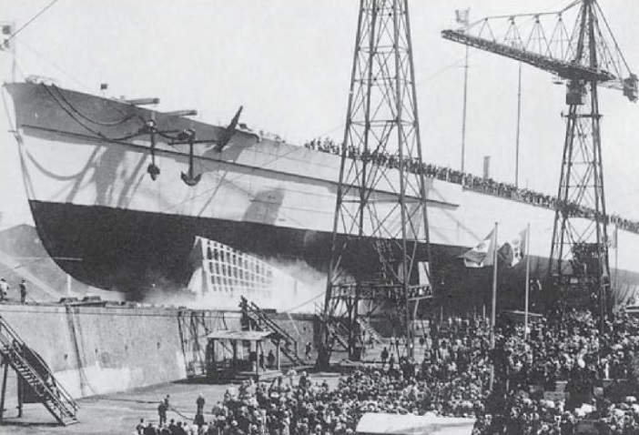 The launching of the Italian battleship Francesco Caracciolo